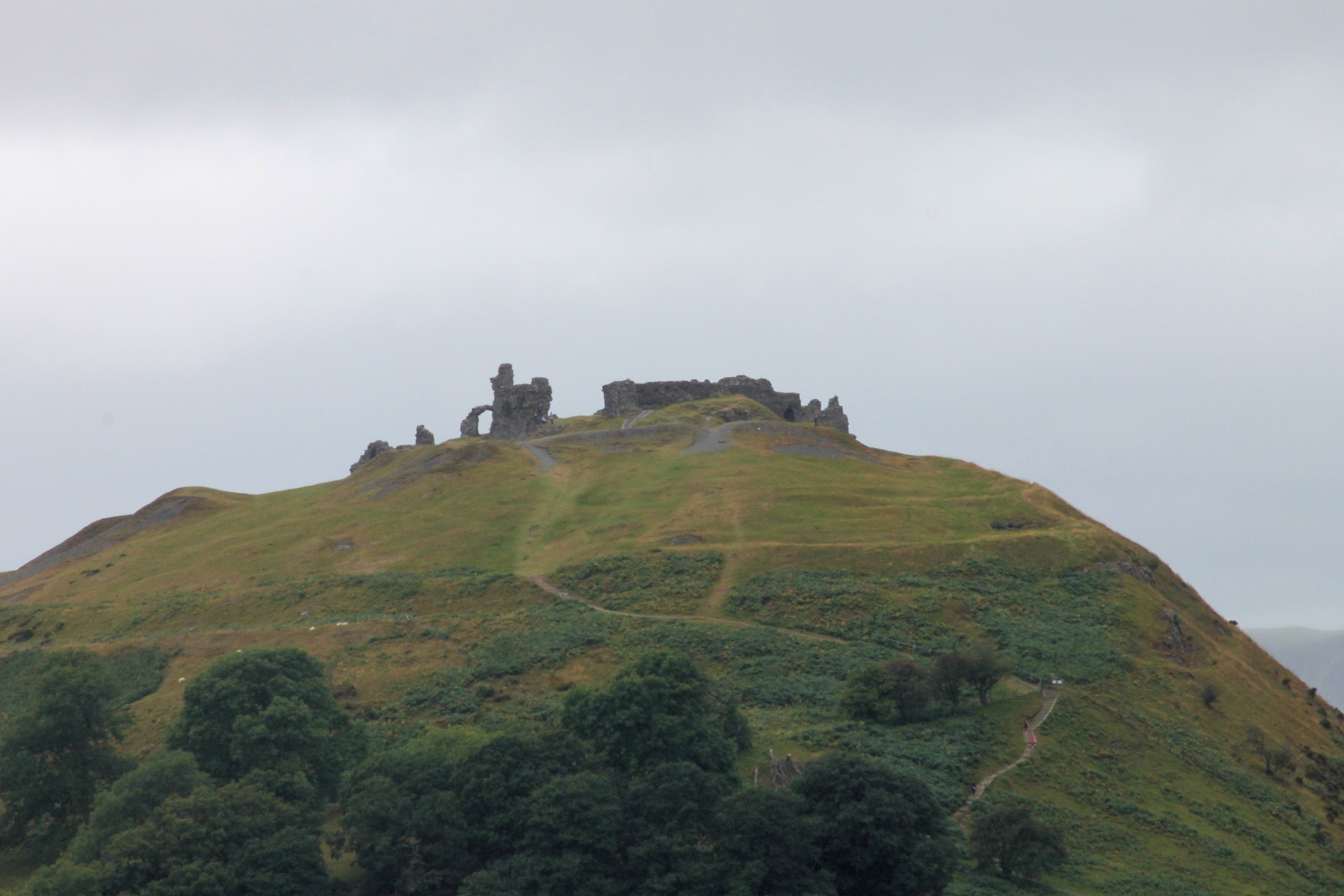 from the panorama Road; Denbighshire, North Wales.